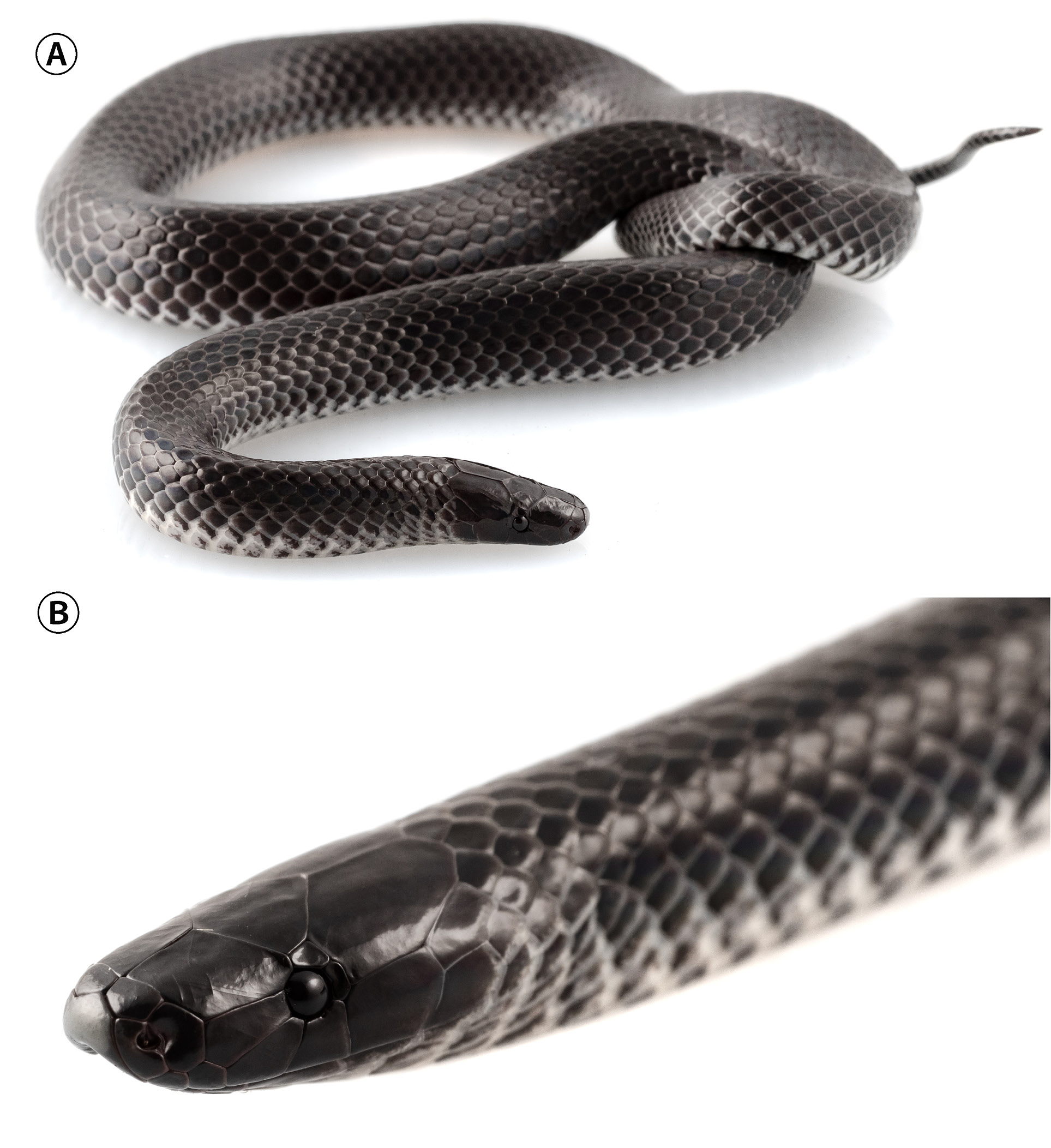 Geophis nigroalbus in life, SVL 309 mm, TL 65 mm A. Dorsal view. B. Cephalic scales view